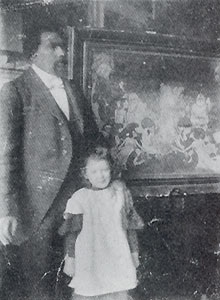 Jan en Charley Toorop voor De drie bruiden